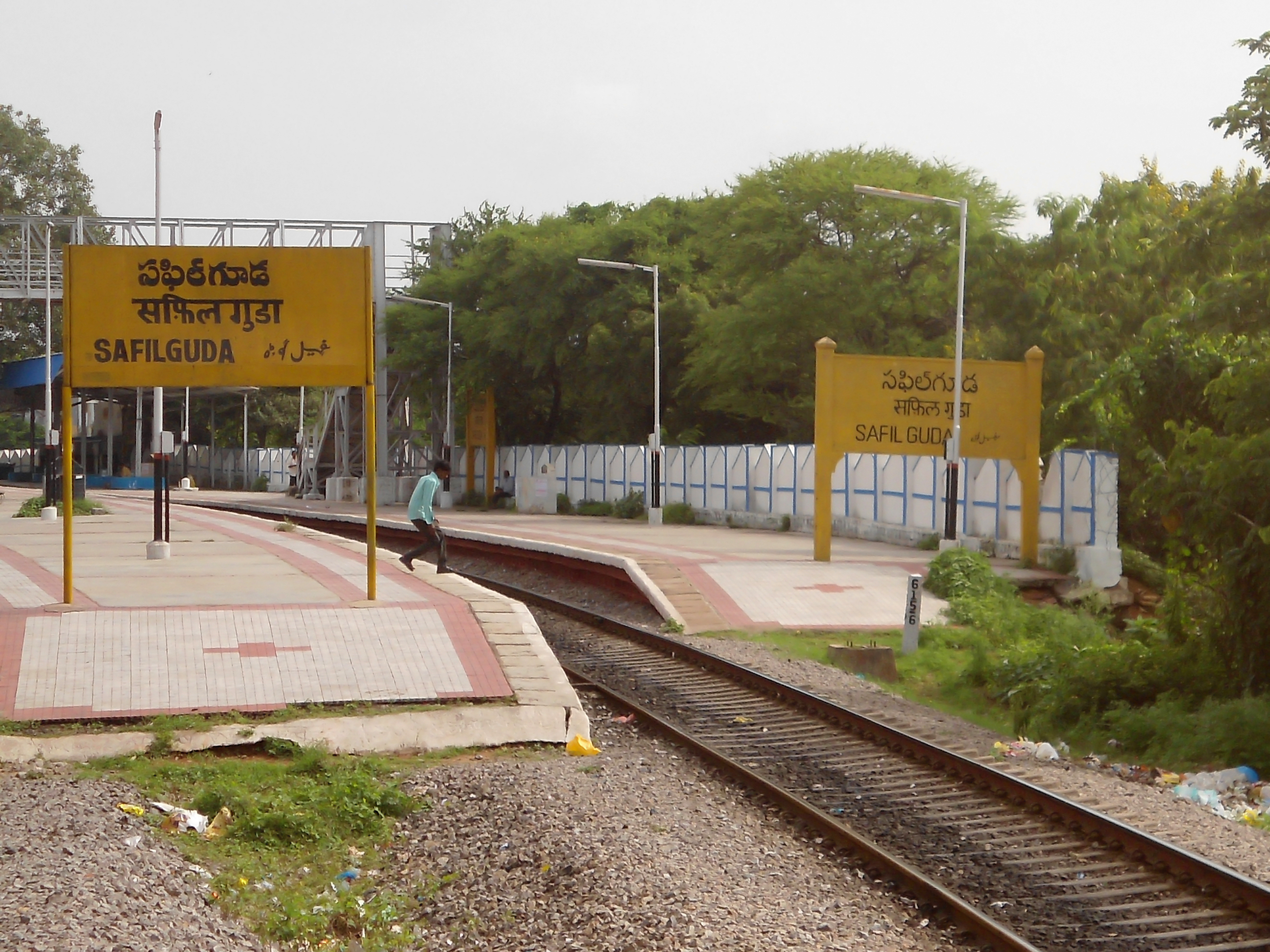 Safilguda Railway Station view, Malkajgiri